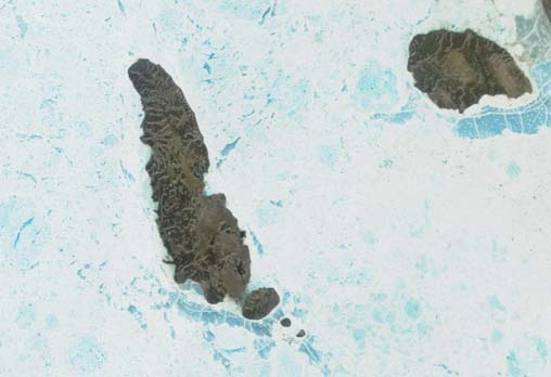 Terra MODIS satellite image of Lougheed Island, Canada.